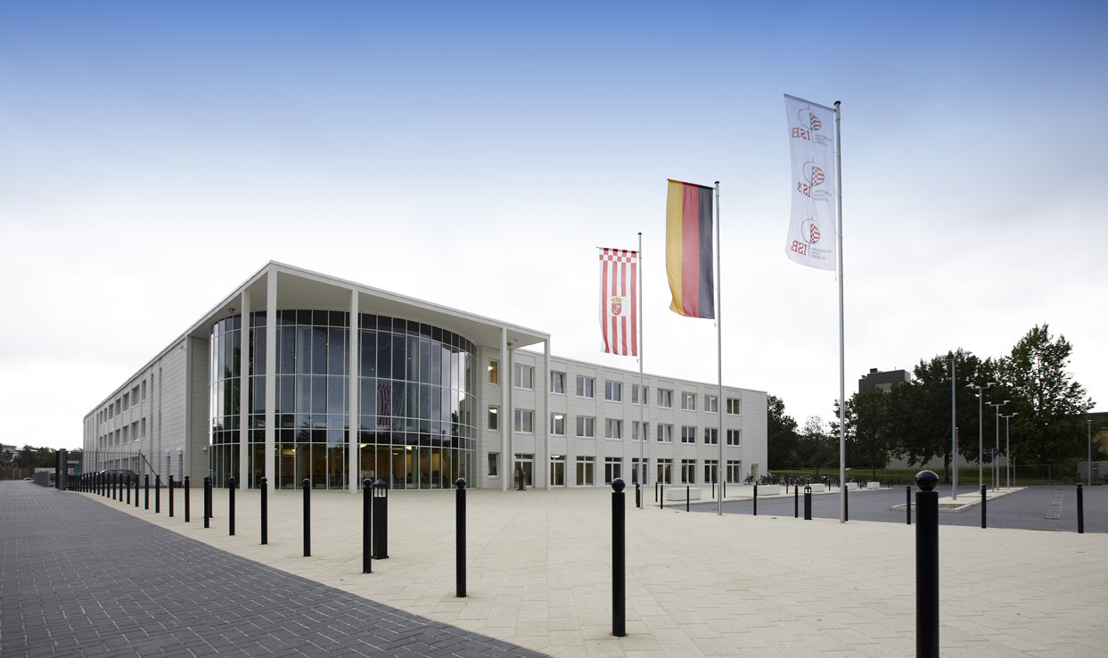 Front shot of the newly opened International School of Bremen in the Technologie Park